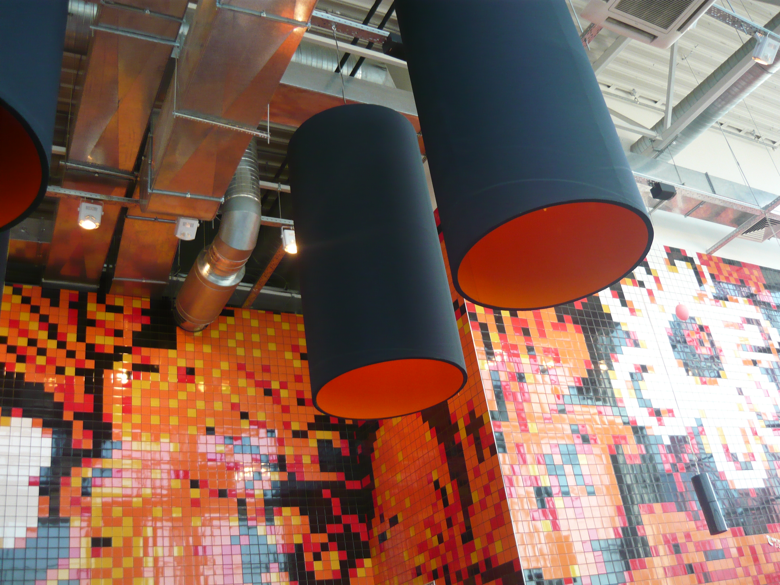 fast food Chaynaya Lozhka